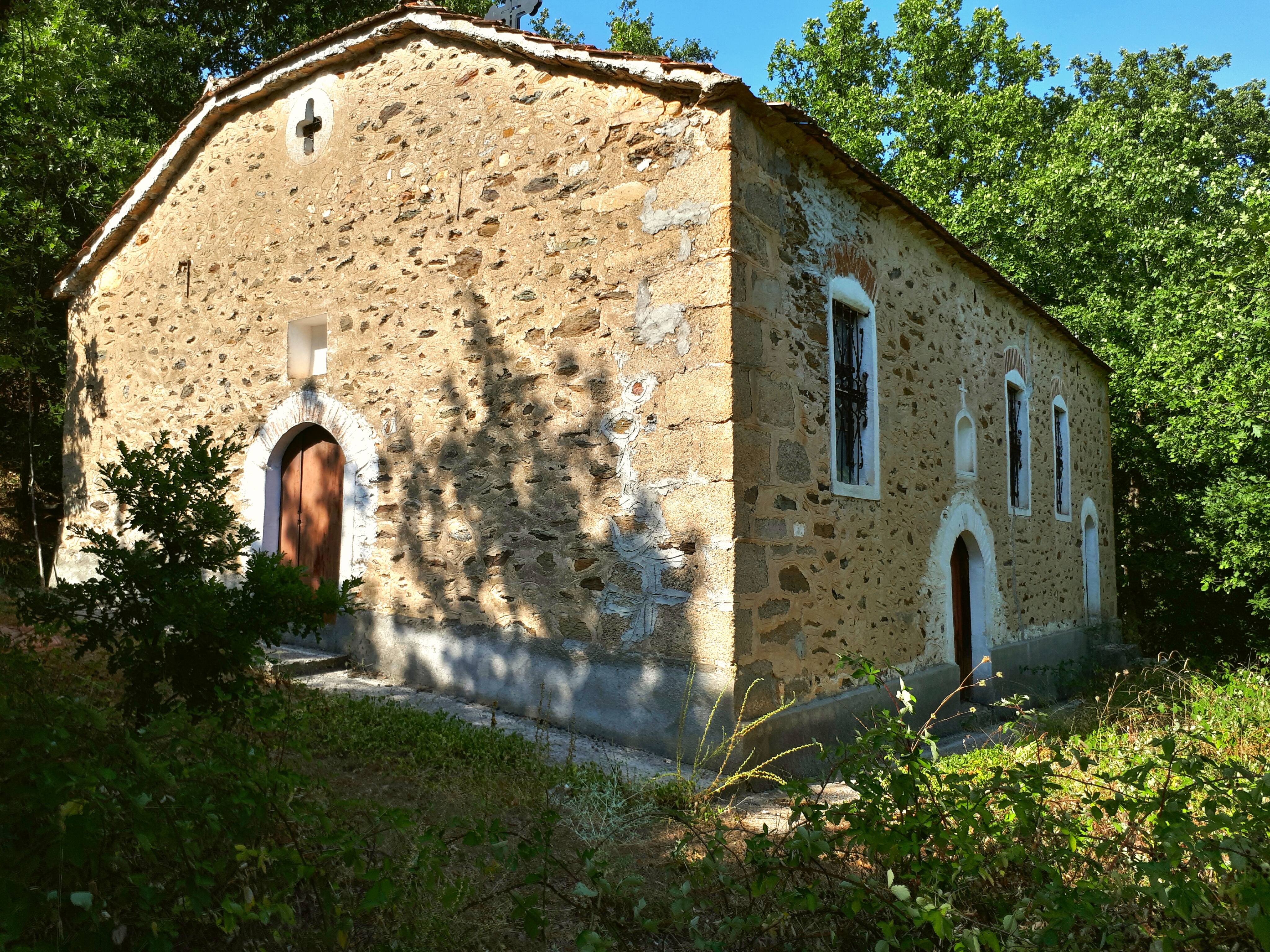 Part of the Veloexpedition in 2017